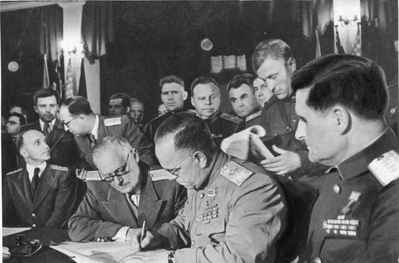 The unconditional surrender of the German Wehrmacht is signed on 8 May 1945 in Karlshorst by Marshall of the Soviet Union Georgy Zhukov, in representation of the Red Army High Command, by the Soviet deputy foreign minister Andrey Vyshinsky (to the left of Zhukov), and by the General of the Army Vasily Sokolovsky (to the right).